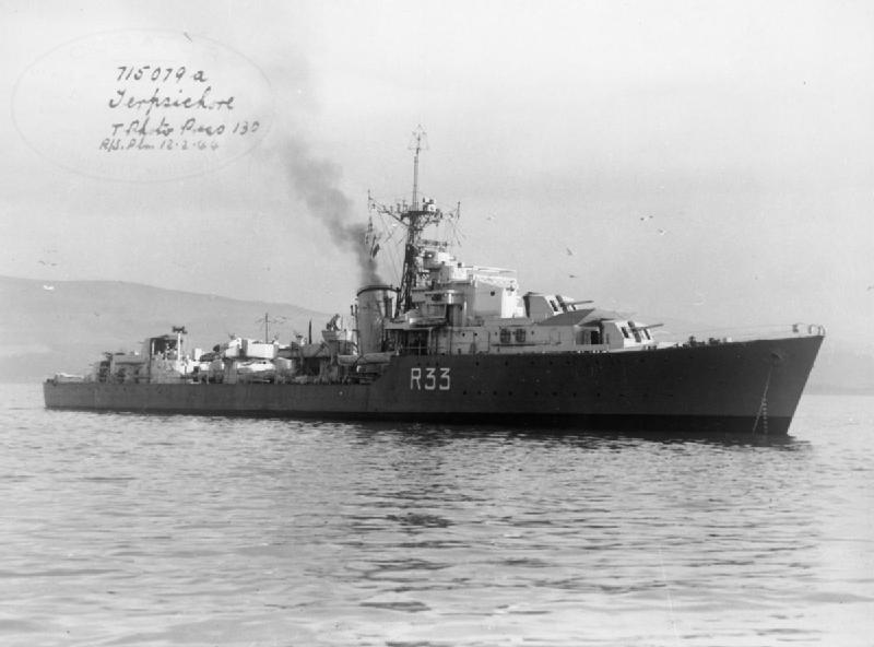 HMS Terpsichore At anchor in the Clyde.